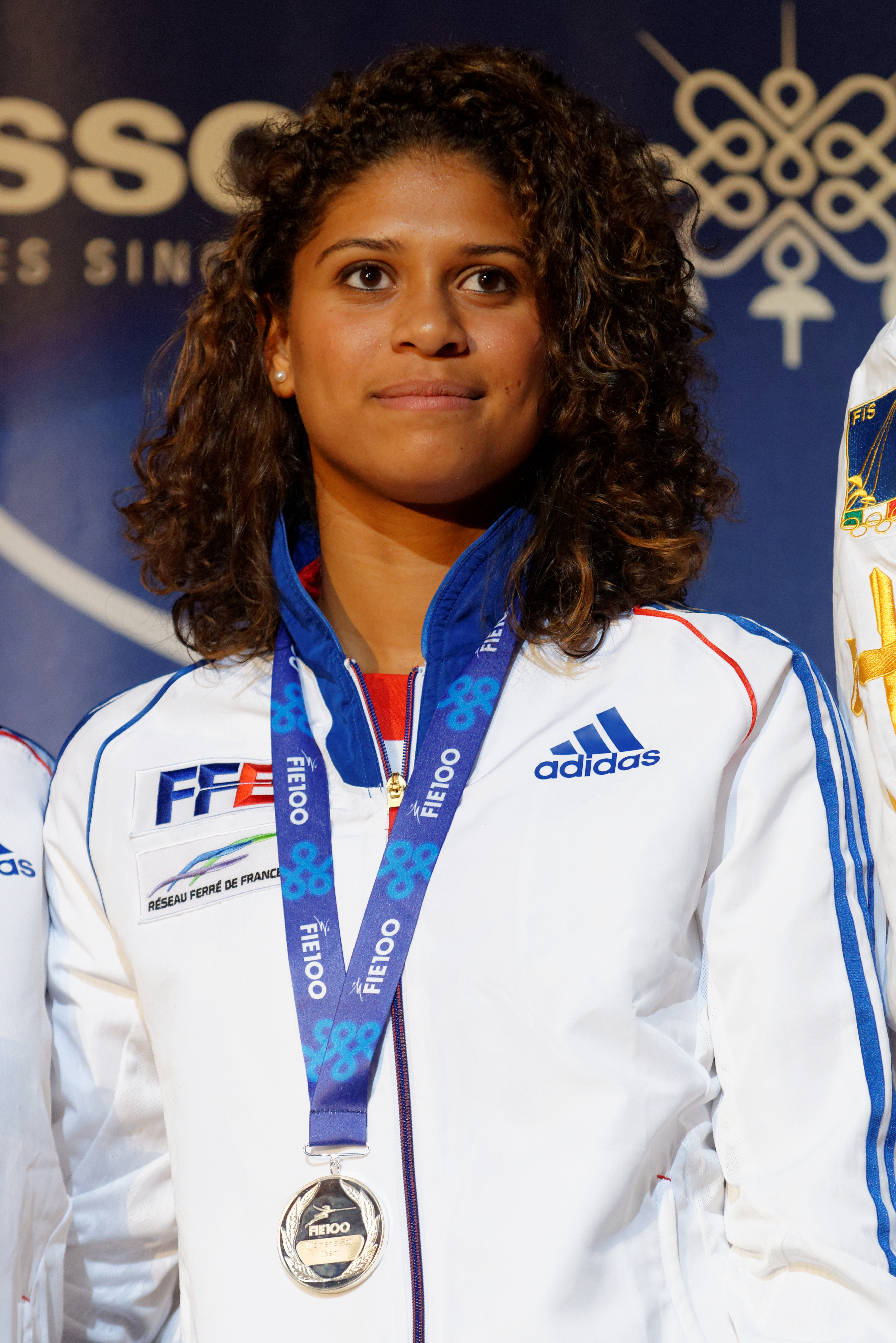 Ysaora Thibus stands on the women's team foil podium of the 2013 World Fencing Championships 2013 at Syma Hall in Budapest, 10 August 2013.